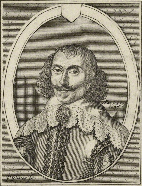 Portrait of William Bosworth (died 1650?), English poet.